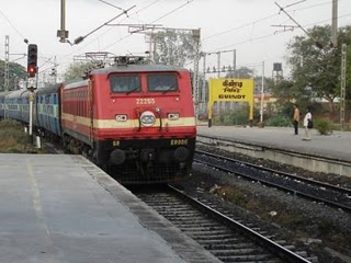 Guindy Railway Station